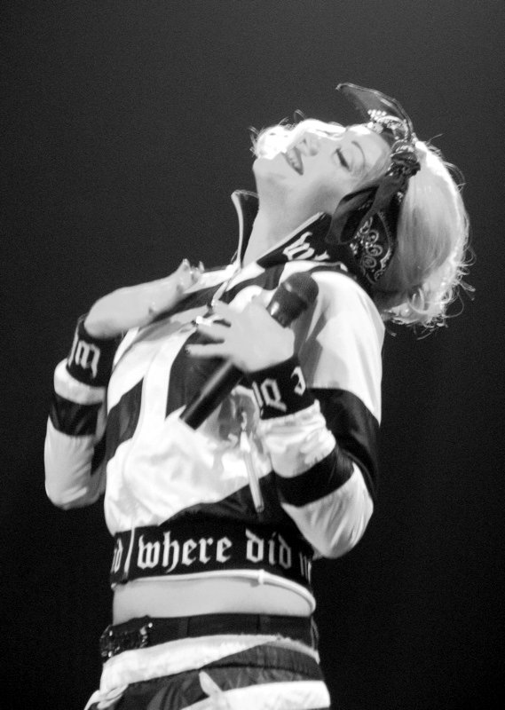 Gwen Stefani performing "Crash" in Duluth, Georgia, United Statesrich girl